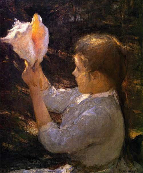 Child with a Seashell (oil), 1902, by Frank Weston Benson